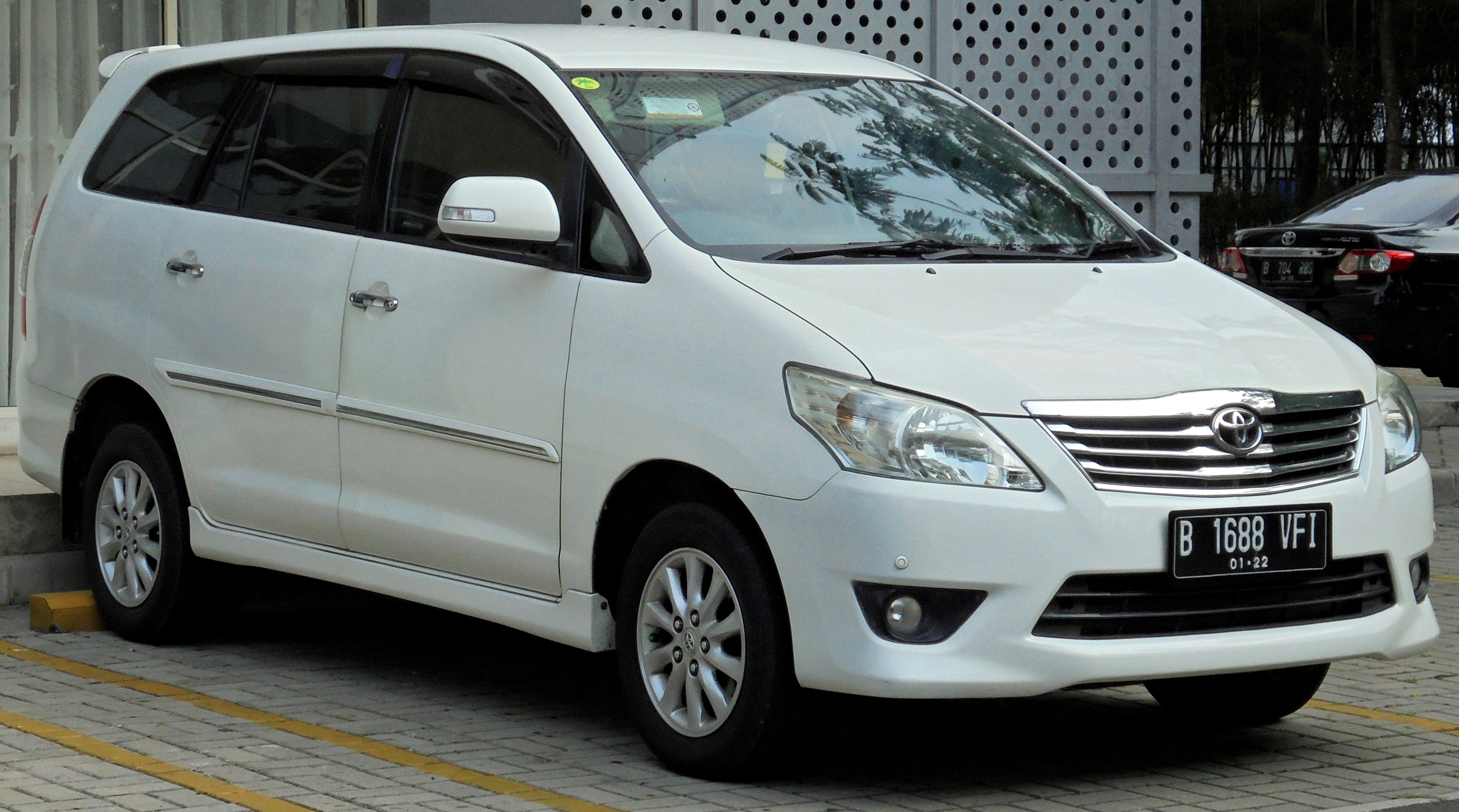 2012 Toyota Kijang Innova V wagon (AN40) photographed in South Tangerang, Banten, Indonesia.